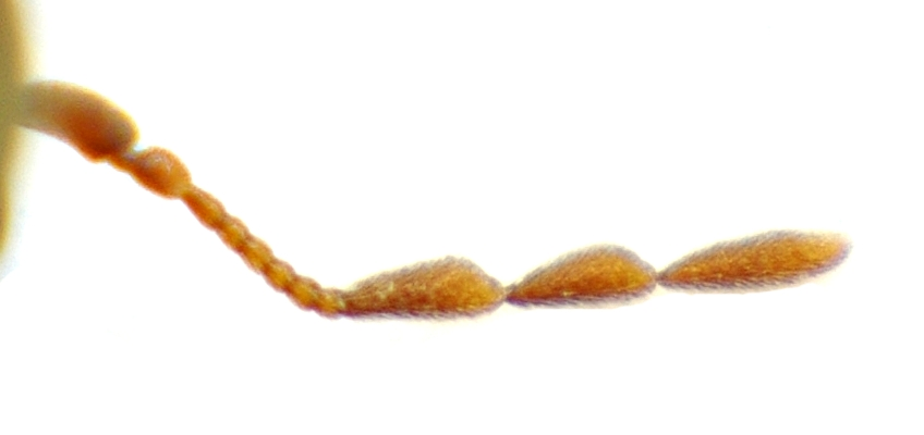 Anobium punctatum from Southern Germany, Antenna